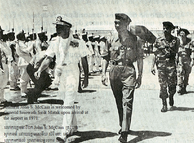 Admiral John S. McCain is welcomed by General Sisowath Sirik Matak upon arrival at the airport in 1971.